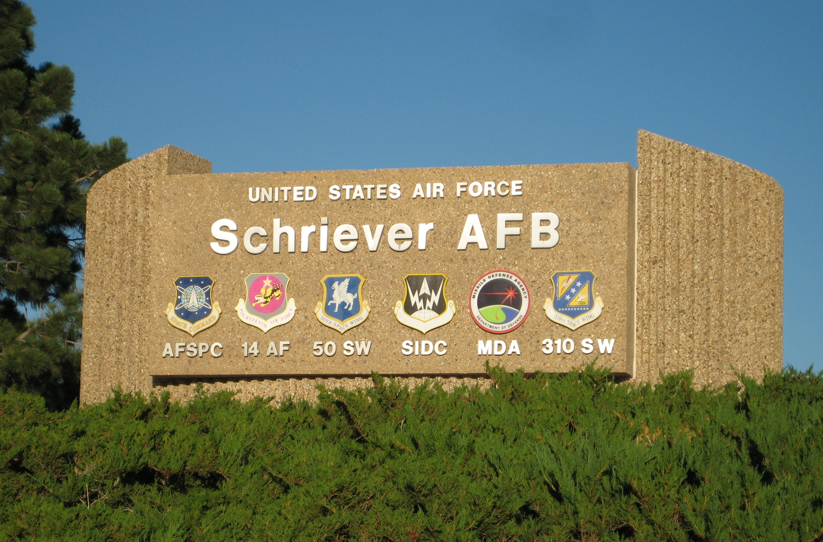 Base boundary moved out and new gates were constructed, so this is now inside the base. The org names are kept up to date, though when they changed "310 SG" to "310 SW", the put the W too far from the S. AFSPC shield is very old because it says "Space Command" instead of "Air Force Space Command". 14th Air Force emblem's background color has faded. IMG_1266